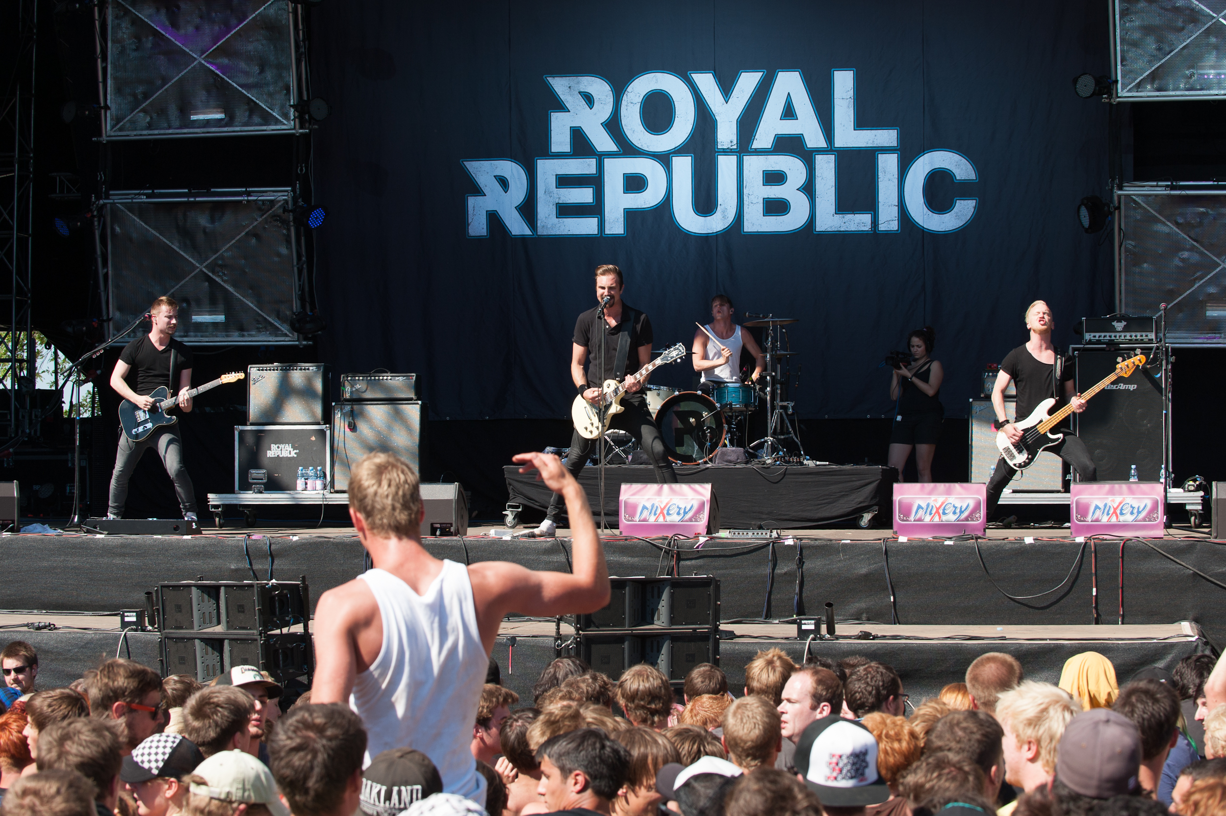 Royal Republic beim Musikfestival Rocco del Schlacko August, 2012.